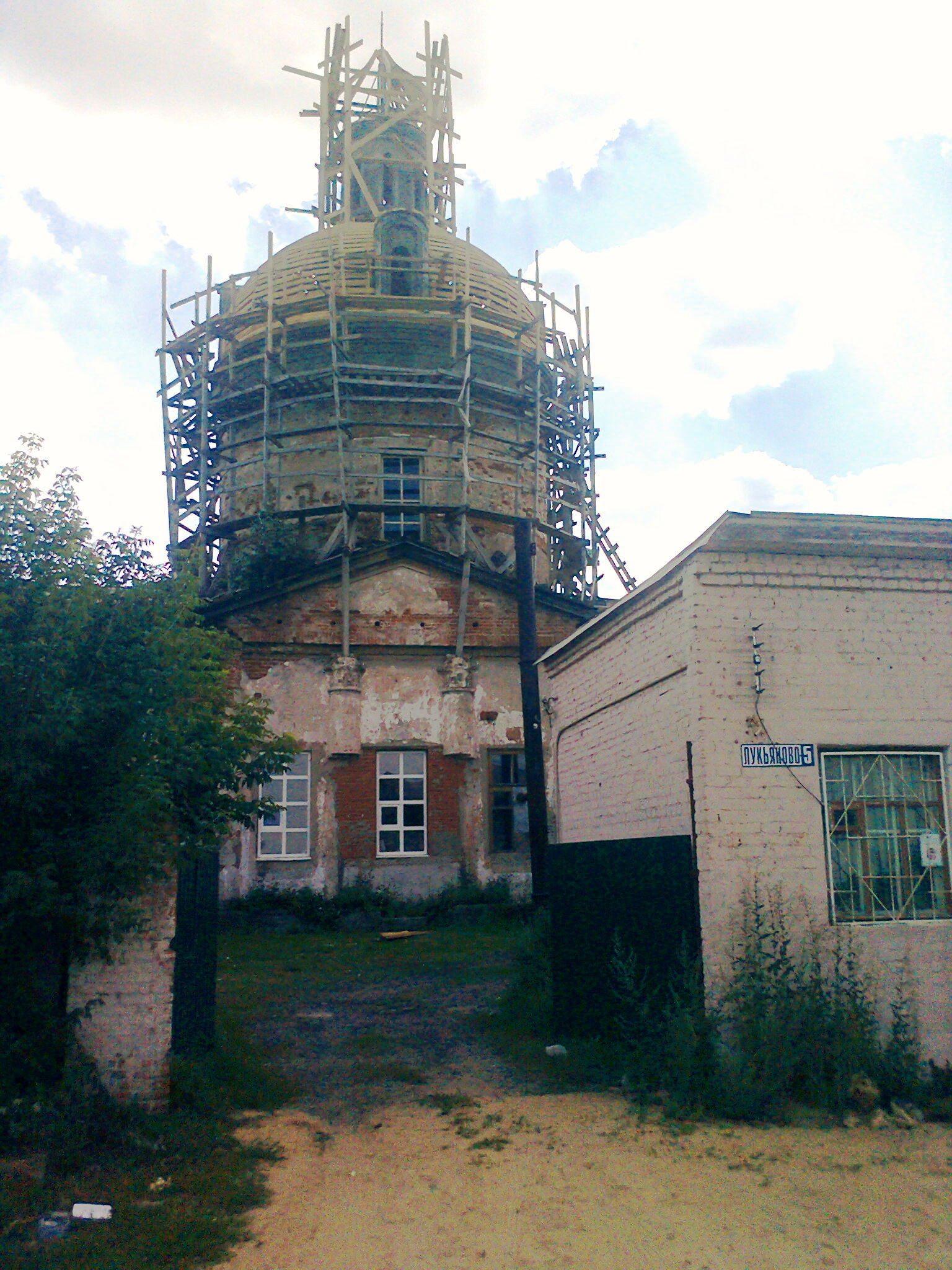 Church of St. Nicholas the Wonderworker (Moscow Diocese of the Russian Orthodox Church) in Lukyanovo, 2012